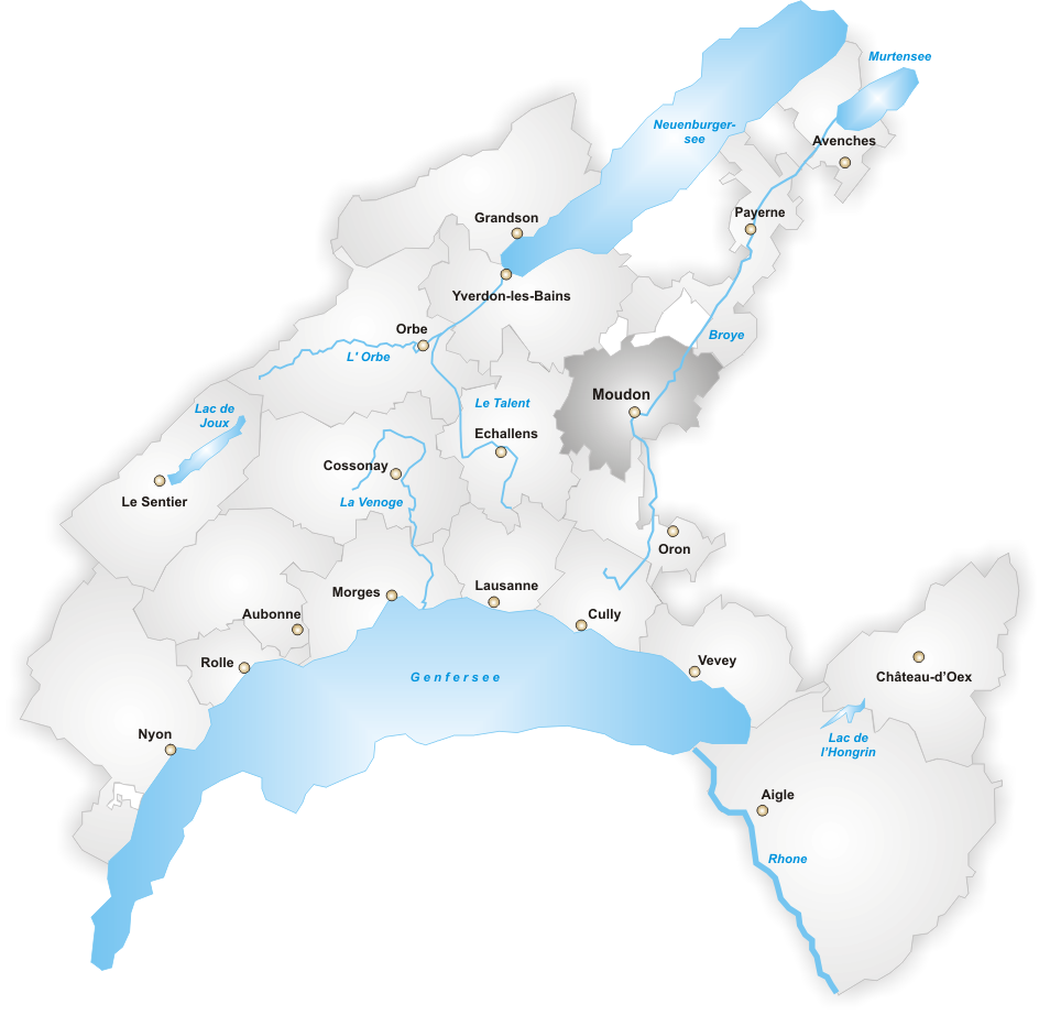 District Moudon until 2007